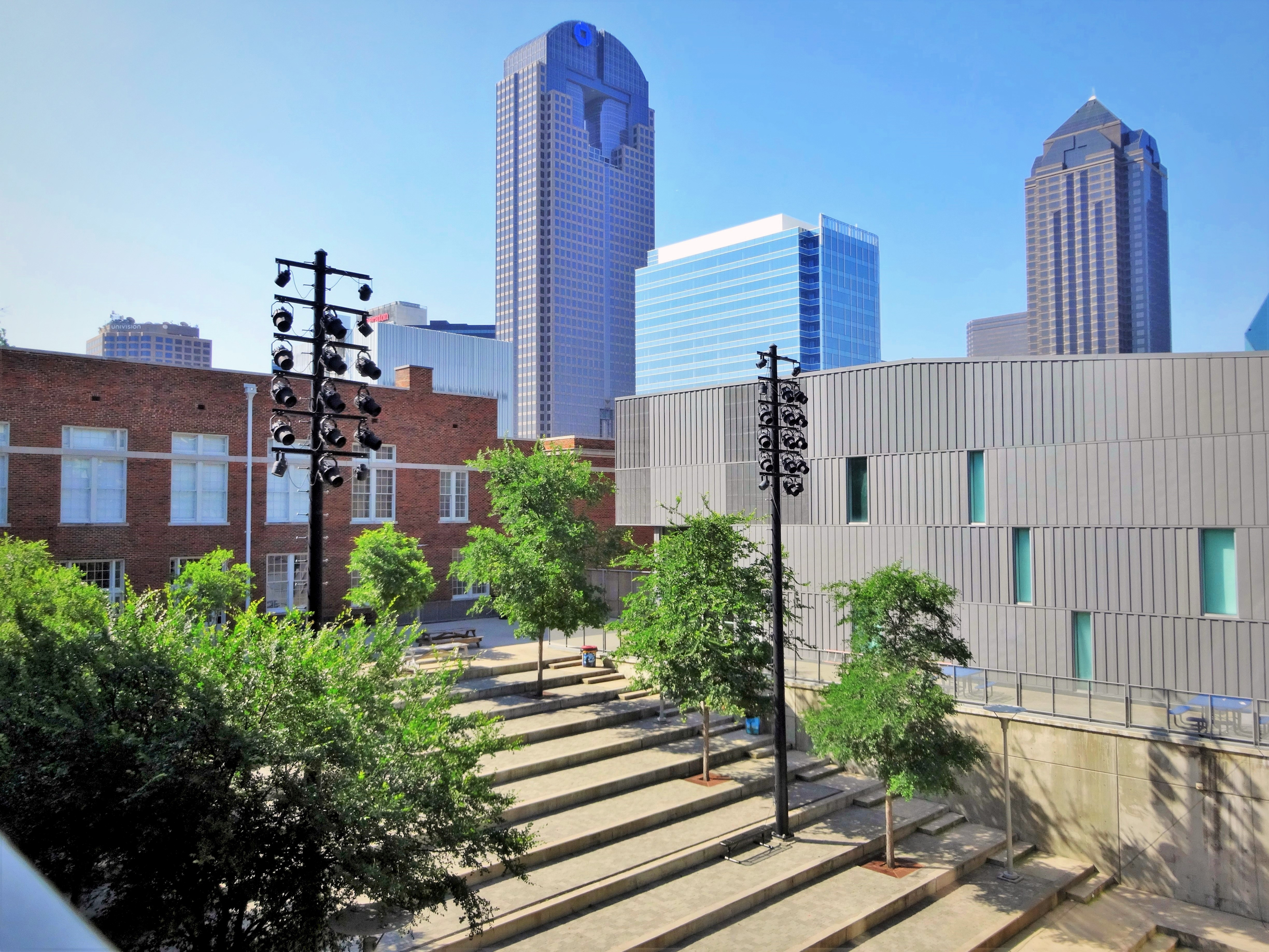 View of the Booker T. Washington High School courtyard against the Dallas Skyline. The original red-brick building connects to modern campus additions, forming the amphitheater-style courtyard in the center.